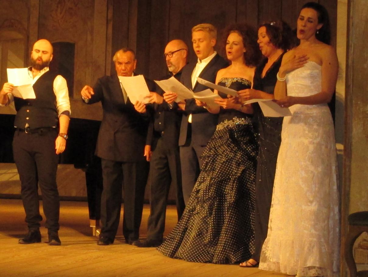 Concert cast (l-r: Kosma Ranauer, Ragnar Ulfung, Lars Cleveman, Carl-Fredrik Tohver, Matilda Paulsson, ? & Caroline Gentele) pays tribute to Kjerstin Dellert at the 40th aniversary celebration of her theaterPlace: Ulriksdal Palace Theater, Solna, Sweden